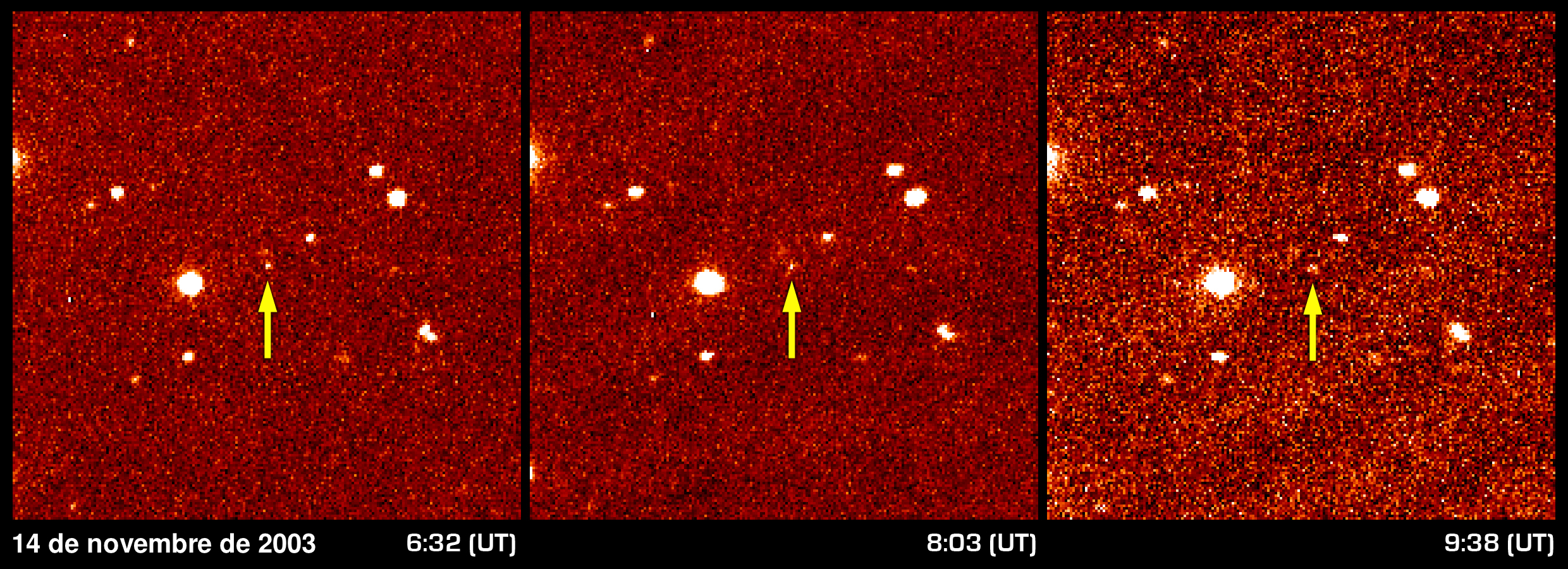 These three panels show the first detection of the faint distant object dubbed "Sedna." Imaged on November 14th from 6:32 to 9:38 Universal Time, Sedna was identified by the slight shift in position noted in these three pictures taken at different times. Subsequent observations at longer time intervals provided the information necessary to deduce the nature of Sedna's 10,500 year orbit around the Sun. The field of view of each frame is 3.4 arcminutes square, and each pixel is 1.0 arcsecond.